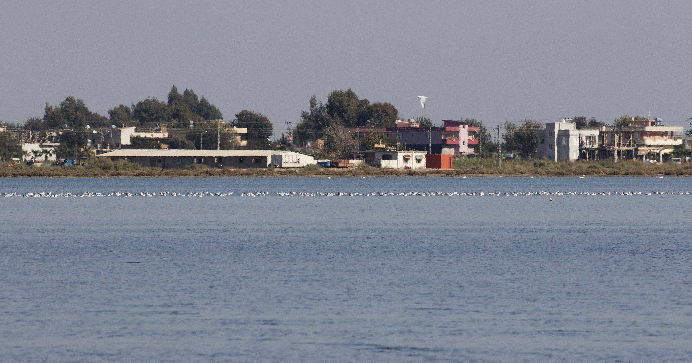 A partial view of Lake Tuz in Tuzla. Karataş - Adana, Turkey.